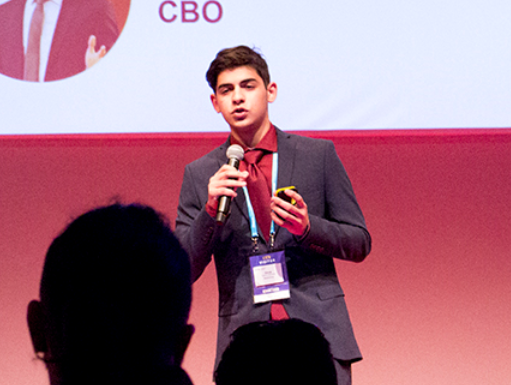 Giorgi Tskhovrebadze at Mobile World Congress in Barcelona, Spain